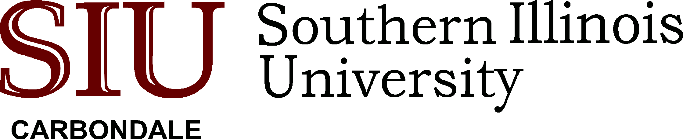 Logo of Southern Illinois University Carbondale